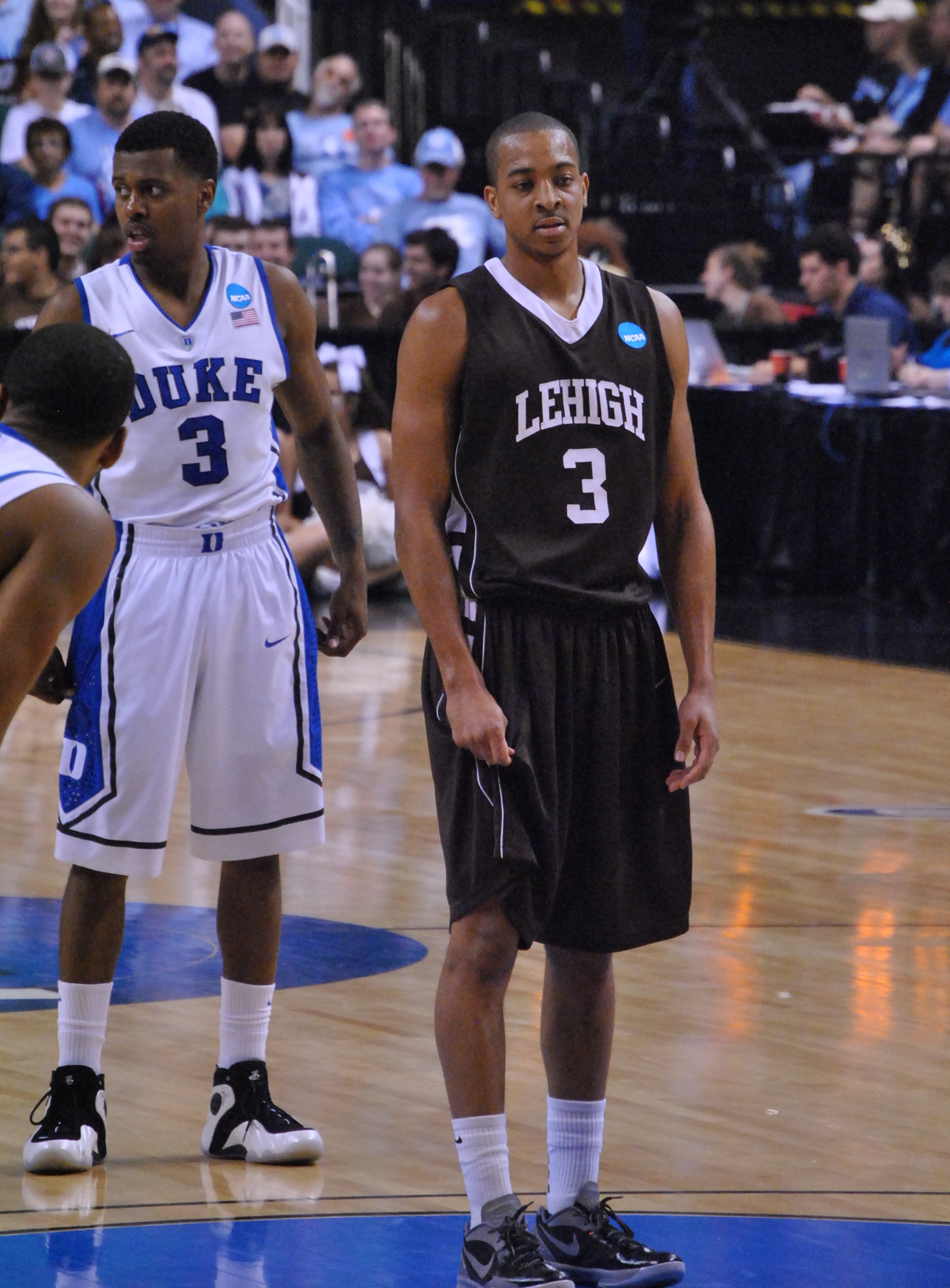 C. J. McCollum ready the shoot free throws in the first half.